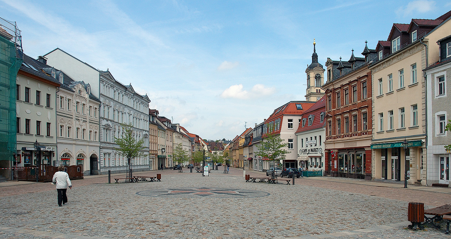 This image shows the main market in Werdau (Saxony, Germany).